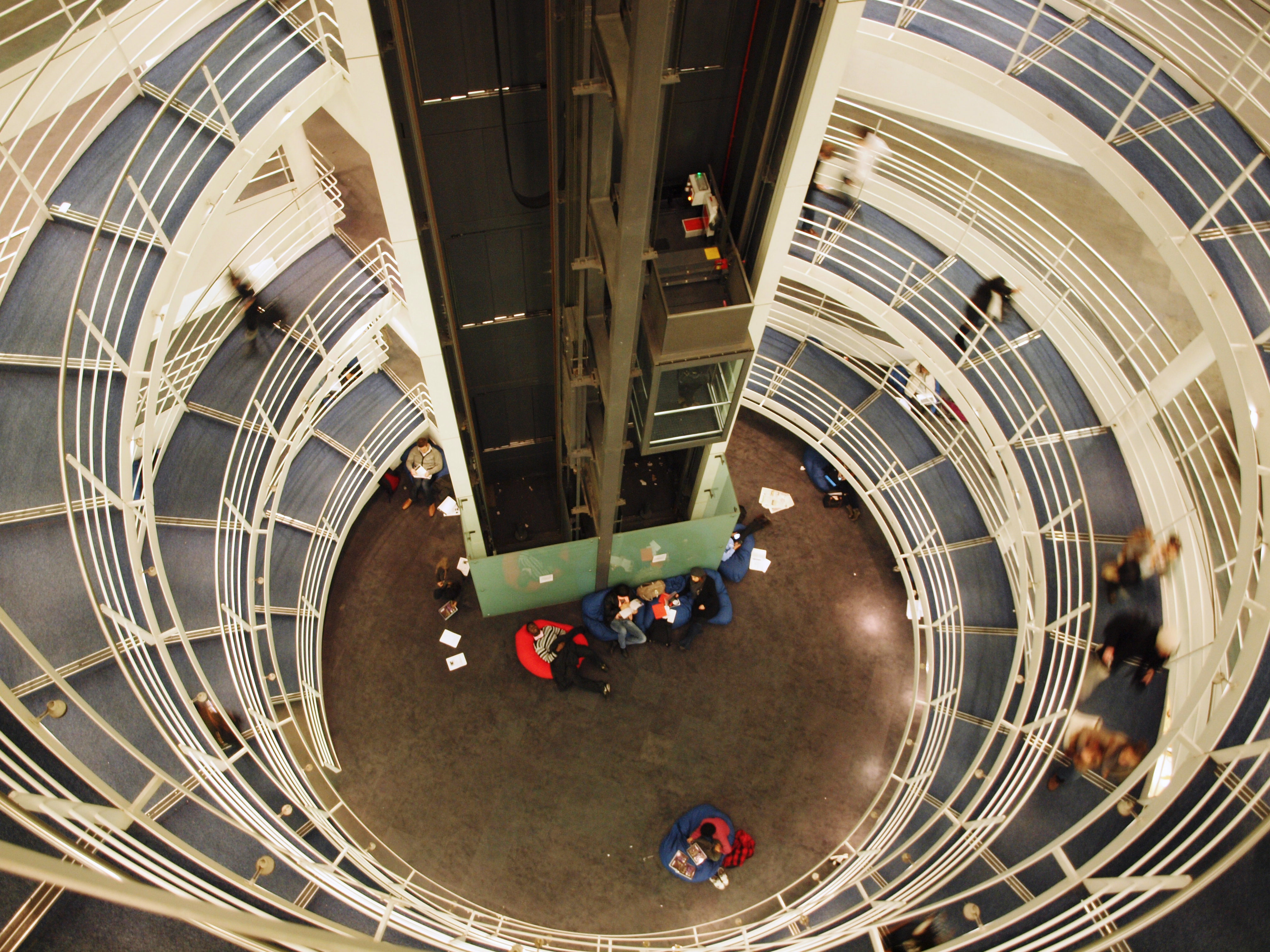 Norman Foster Staircase; London School of Economics Library